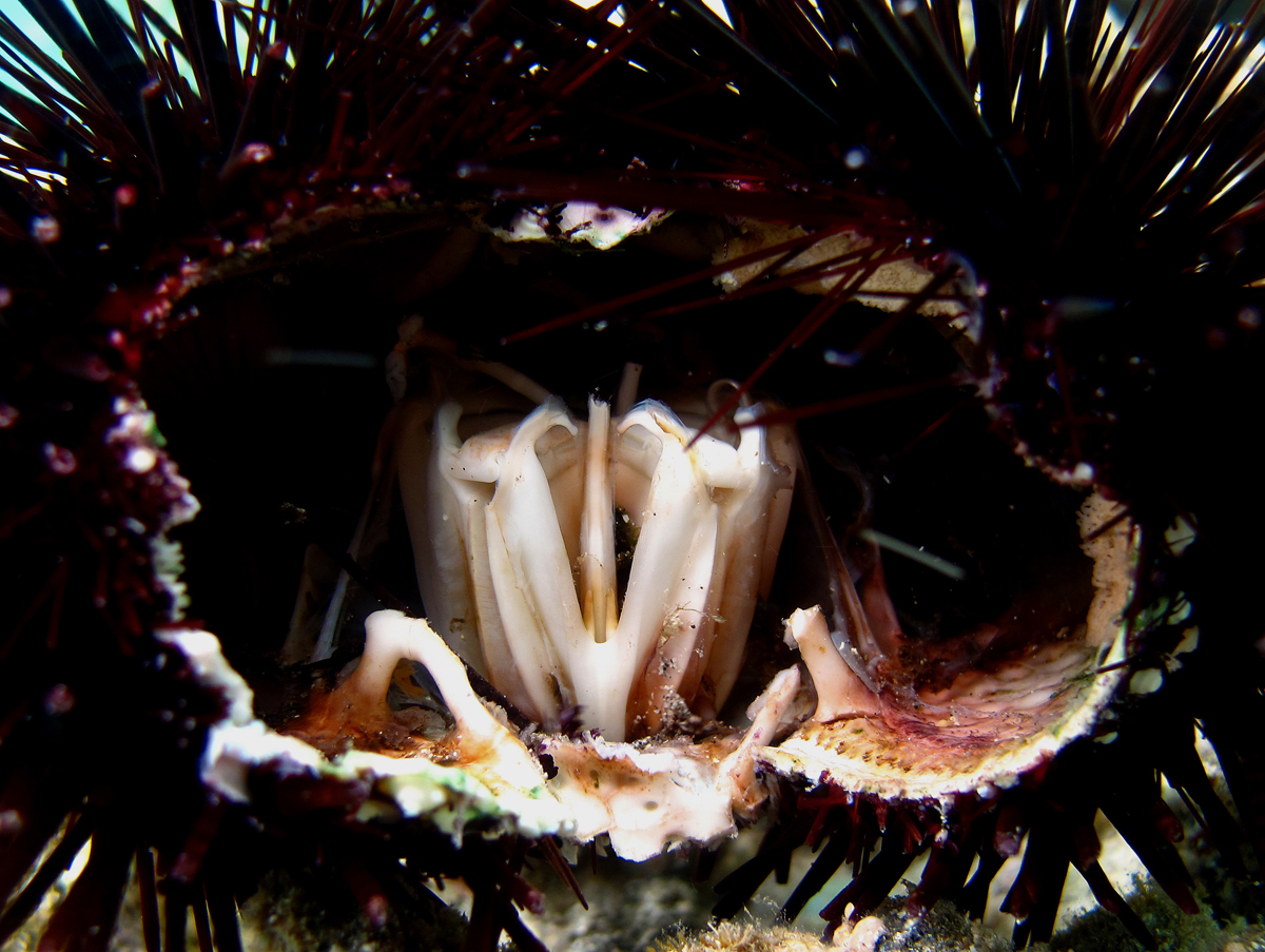 Lantern of Aristotle, the masticatory apparatus of a sea urchin, viewed in lateral section. At Reunion Island.